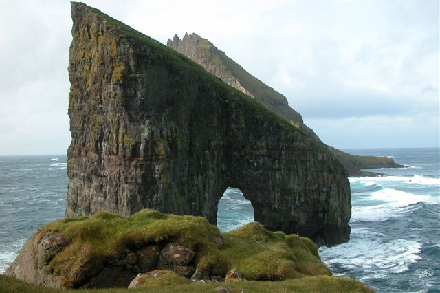 Drangarnir and Tindhólmur, Faroe Islands, October 2005